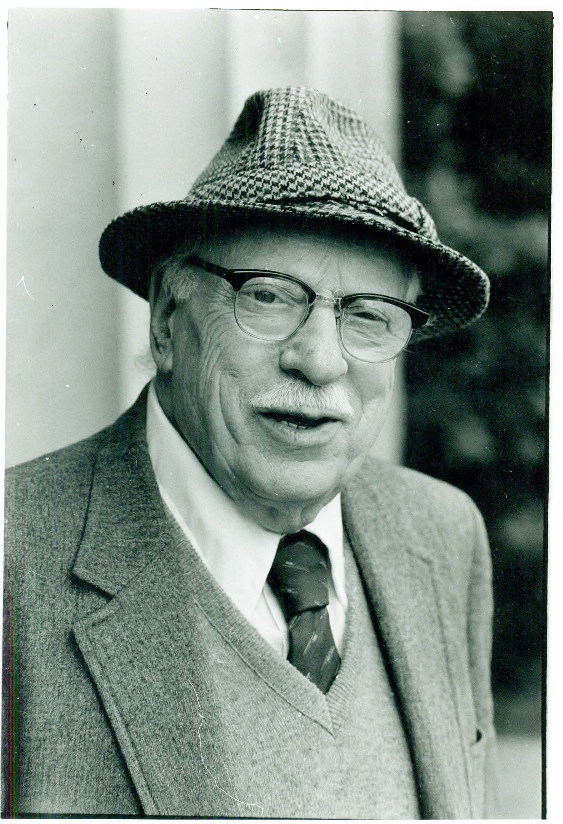 Retired Associated Press photographer Joe Rosenthal in front of the Old Mint, 88 Fifth Street at Mission Street, December 1990. Photo by Nancy Wong